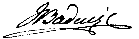 Ignacy Badeni signature